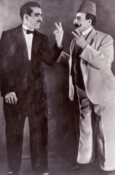 Khabir Galimov as Asgar and Gabdrahman Khabibulin as Soltan bey (Ufa, 1939)